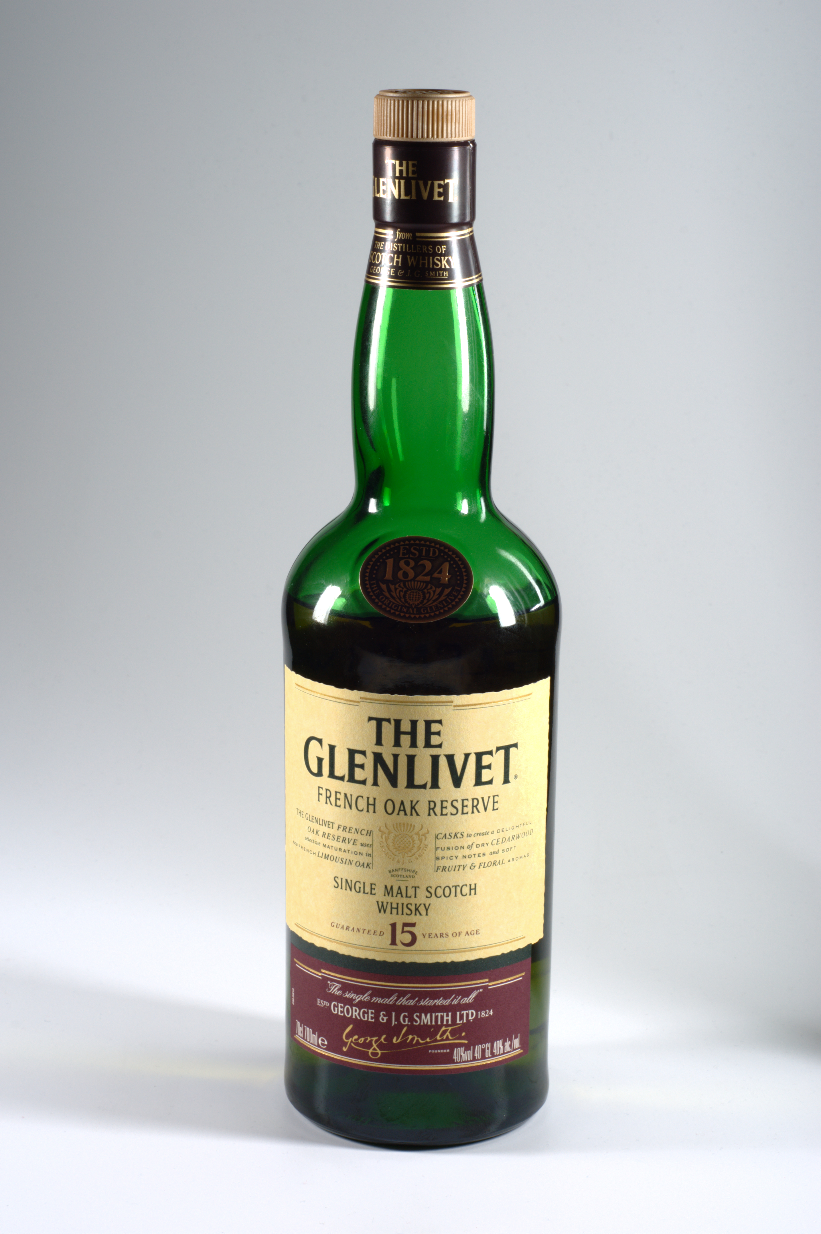 Bottle of The Glenlivet Single Malt Scotch Whisky French Oak Reserve, 15 years old